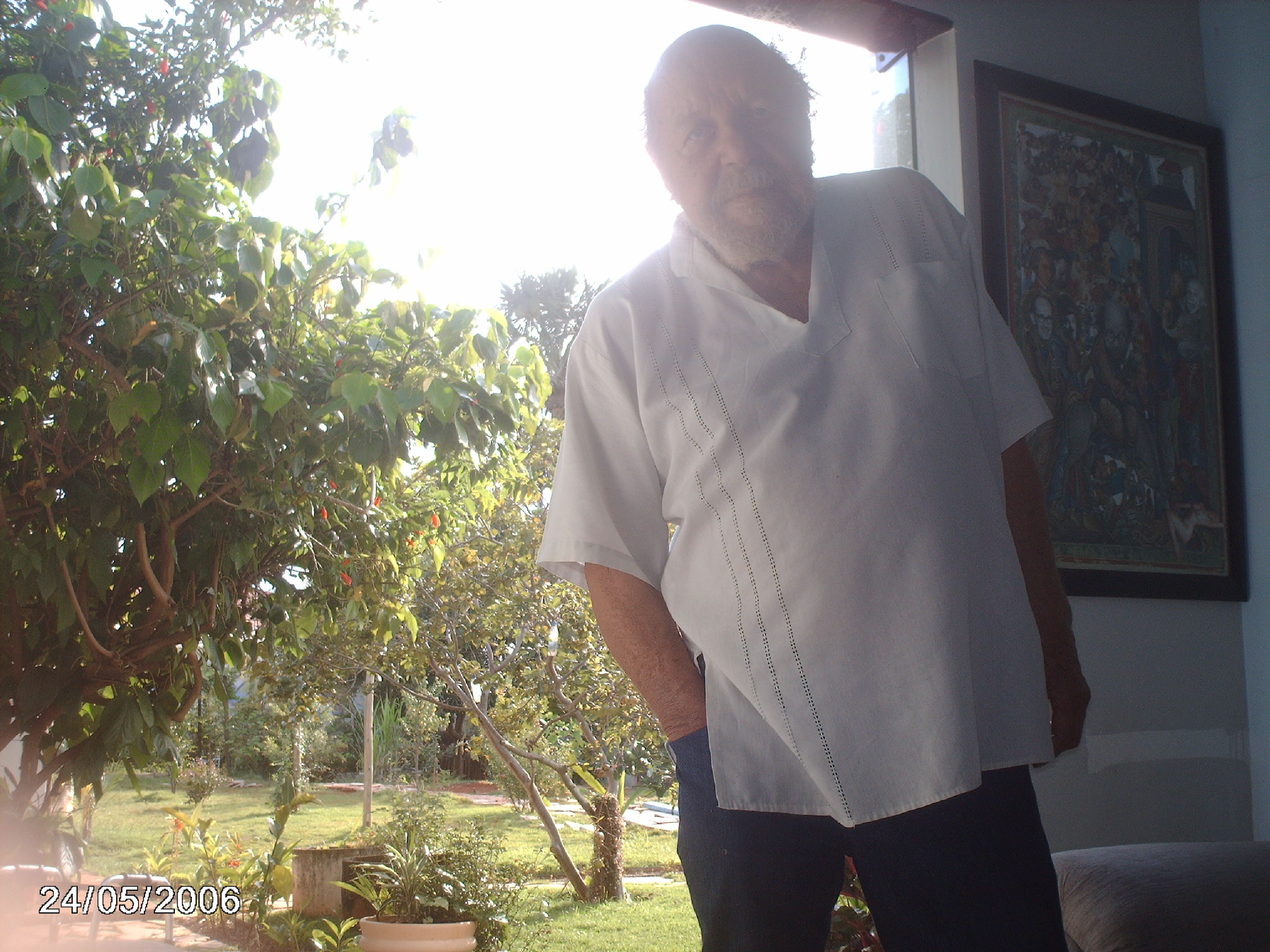 Reynaldo Jardim, 84, em sua casa, Brasília